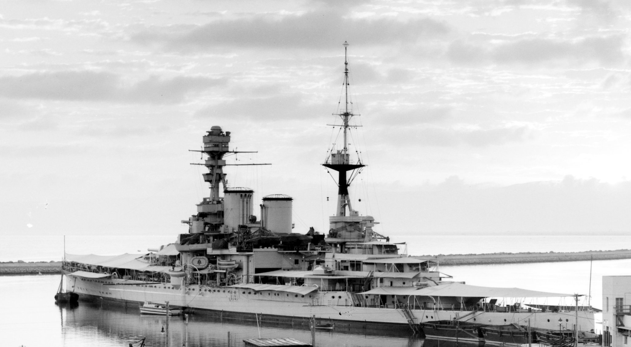 HMS Repulse, photographed in Haifa in July, 1938. Result of terrorist acts & gov't measures. Haifa. H.M.S. Repulse in Haifa harbour silhouetted against striking sunrise. Original image cropped to show only the ship.